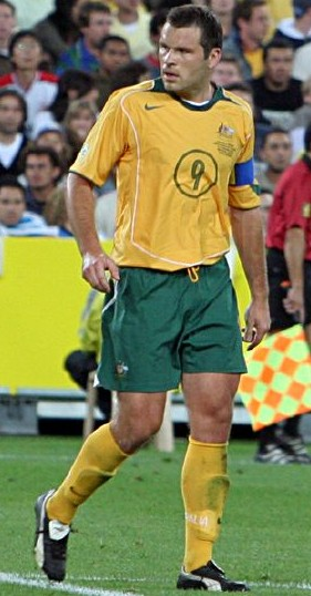 This is a picture of Mark Viduka, the captain of the Socceroos, I took whilst attending the Australia vs Uruguay World Cup Qualifier in Sydney Australia.